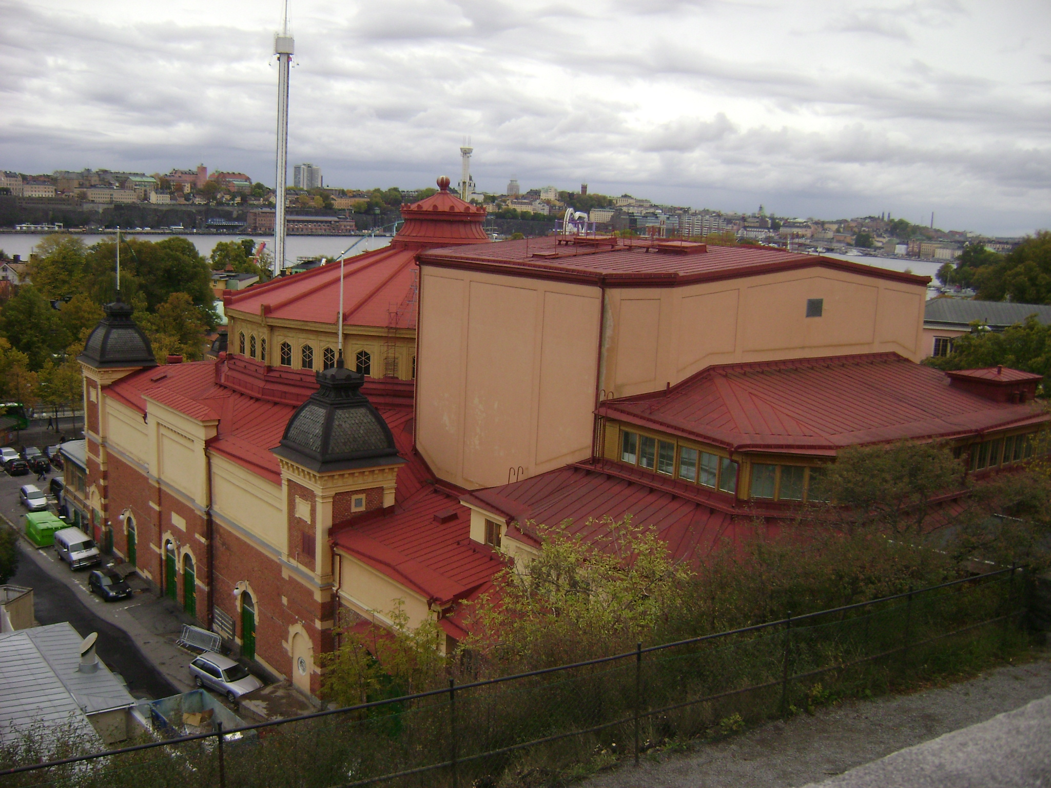 Sweden. Stockholm. Djurgården. Open air museum